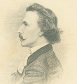 portrait of Robert Henry Newell, aka Orpheus C. Kerr, well known 19th century American humorist.